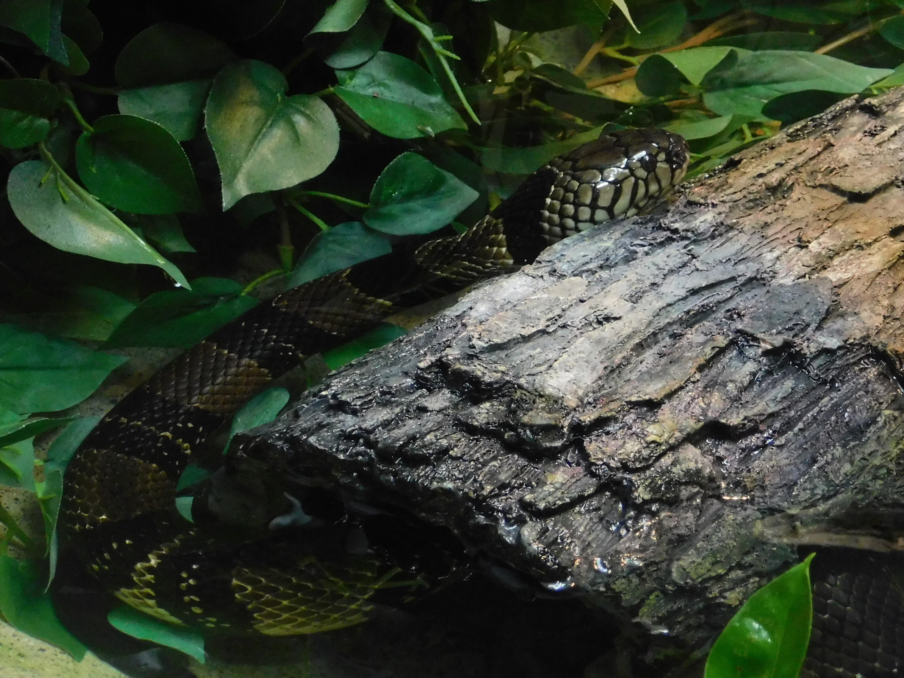 Naja annulata syn Boulengerina annulata at the San Diego Zoo, California, USA